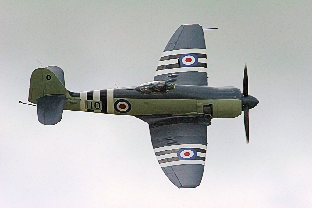 A topside 'catch' of the Sea Fury performing at a rather overcast Yeovilton airday.